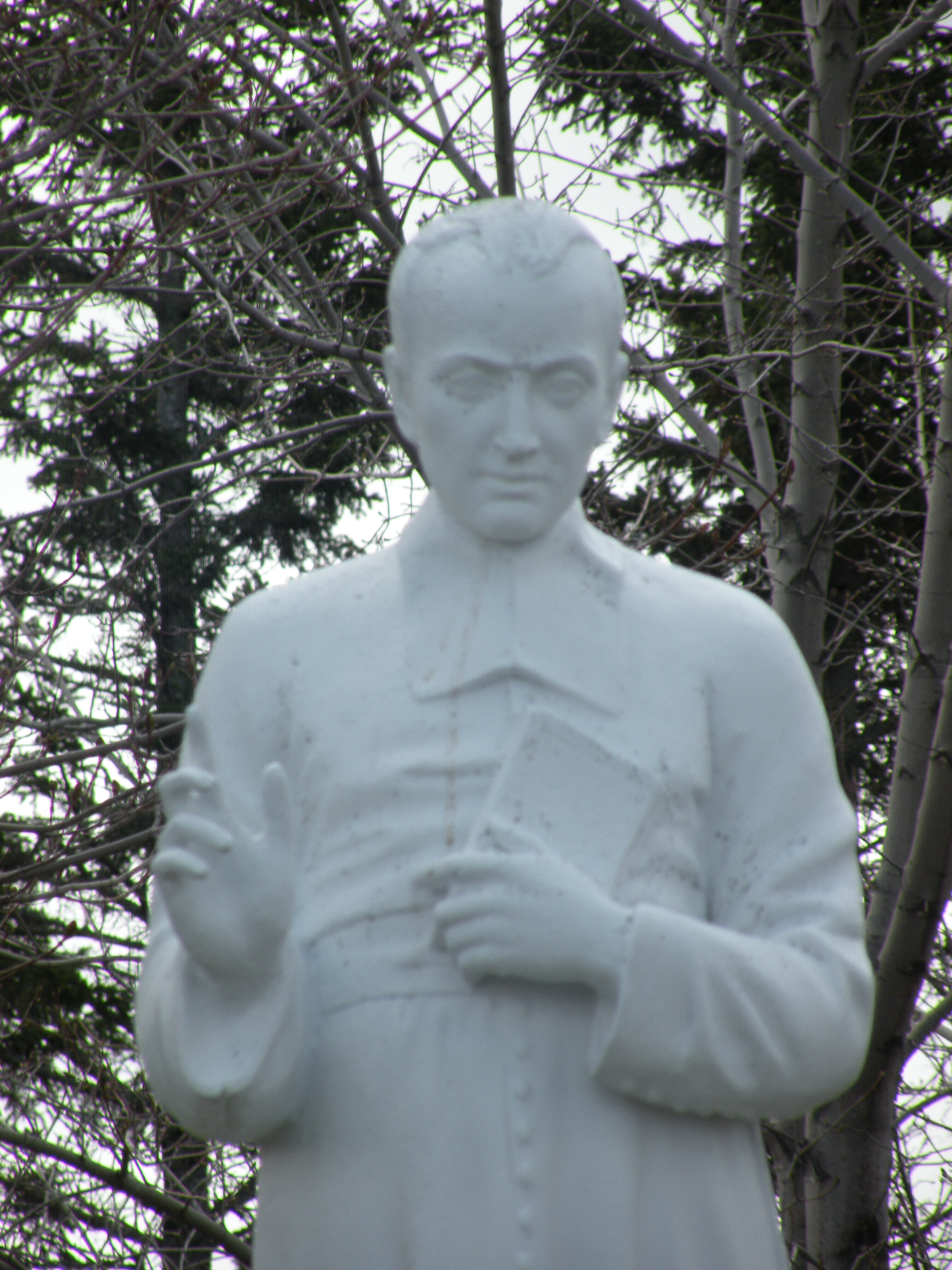 Detail of the monument (by ?) to father Lafrance in Tracadie-Sheila, New Brunswick.